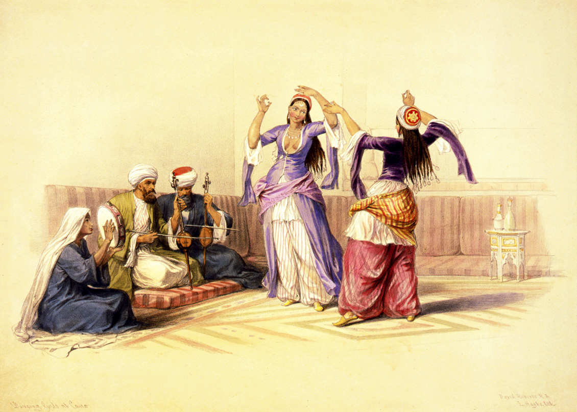 Dancing girls at Cairo. Drawing by David Roberts, R.A., between 1846 and 1849, , 1849. From the U.S. Library of Congress. [PD] This picture is in the public domain.